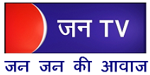 Jan TV logo